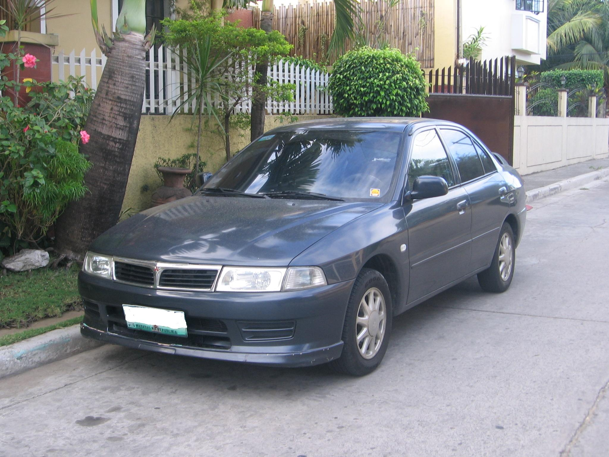 2000-2002 Mitsubishi Lancer sedan photographed in Cainta Rizal